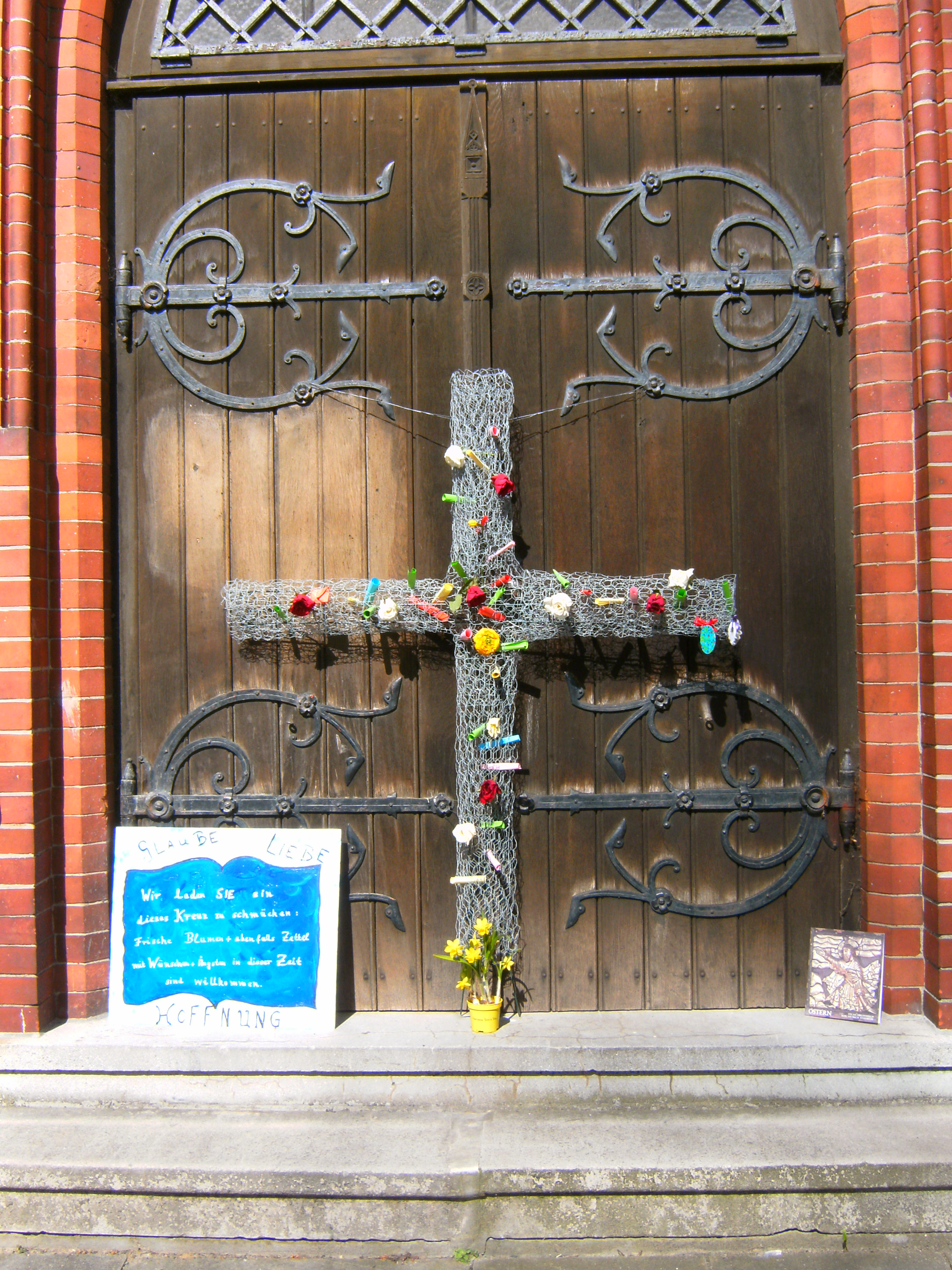 Hamburg-Uhlenhorst, Germany, Lutheran church St. Gertrud: Good Friday, April, 10 2020. Cross at the southern outer entrance to the church. Church was closed because of corona pandemy